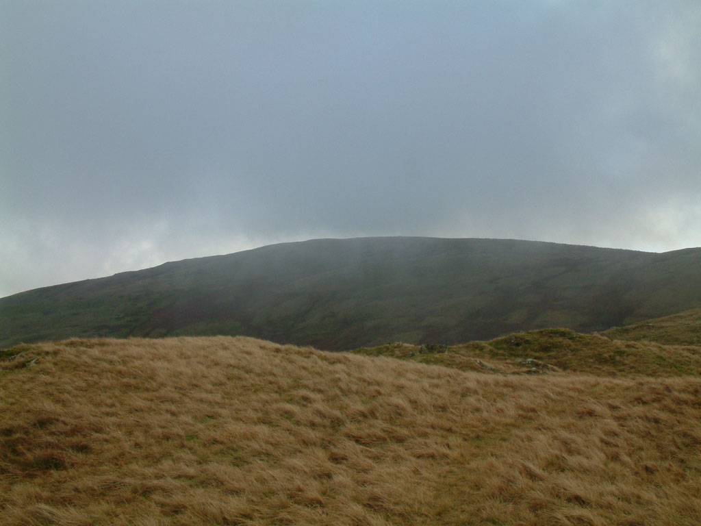 Grayrigg Forest from the west. Photograph by Stephen Dawson, 31 December 2004